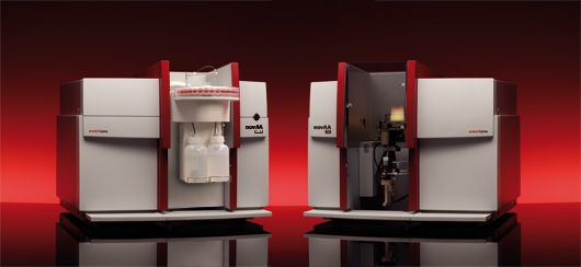 Atomic Absorption Spectrometer